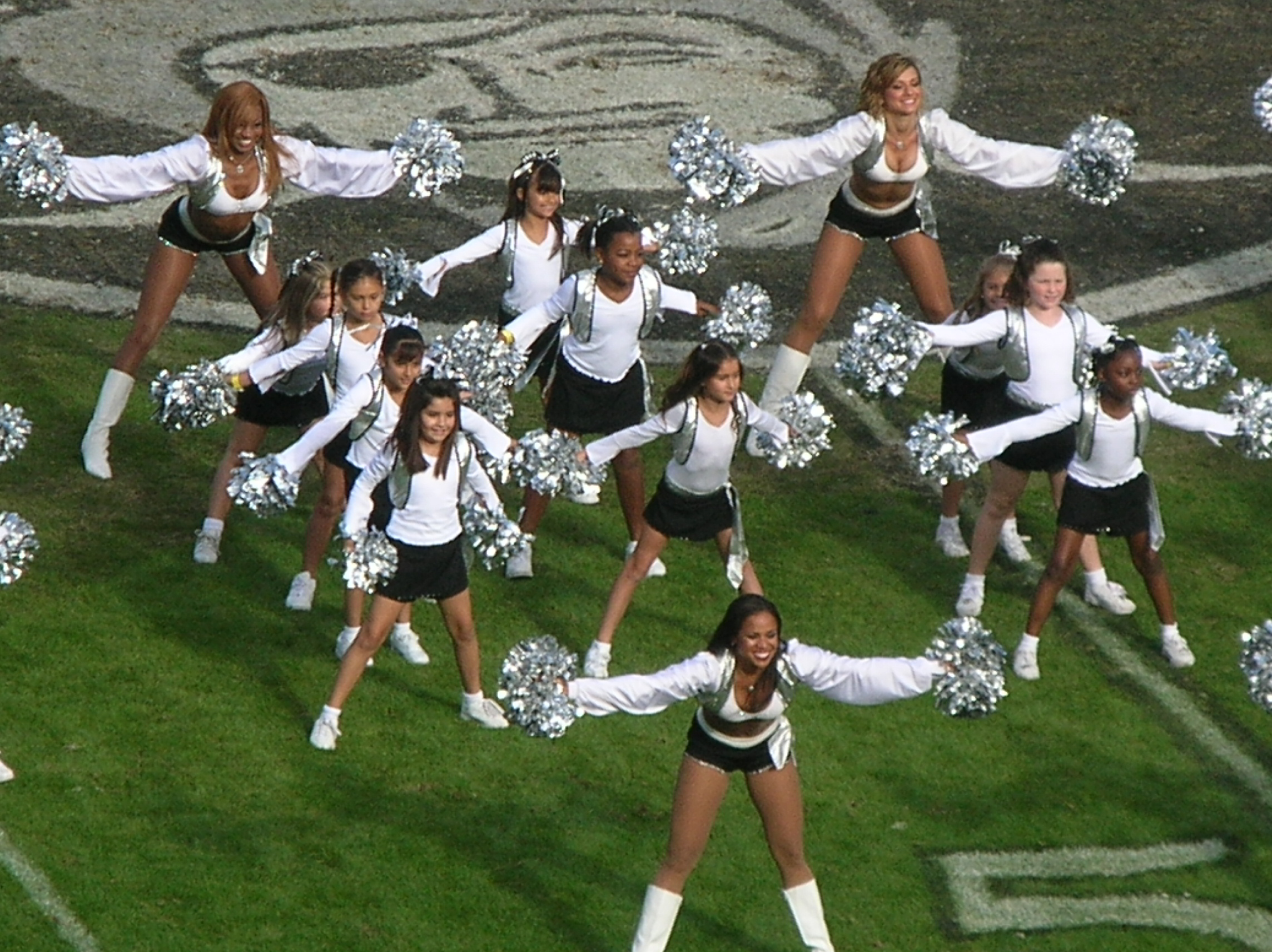 The Oakland Raiderettes and Junior Raiderettes at a Raiders home game against the Atlanta Falcons. The Falcons won 24-0.